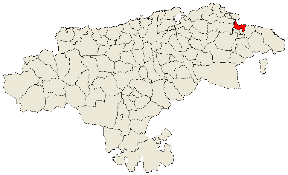 Mapa del municipio de Laredo (Cantabria, España)